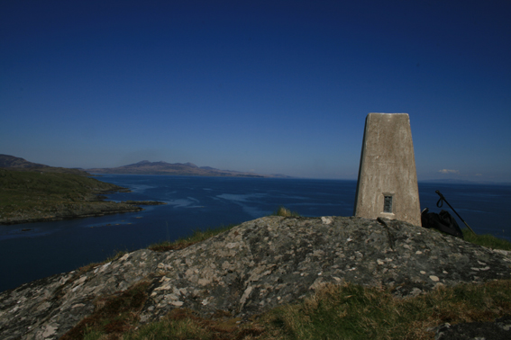 Ardmore Trigpoint, Islay Port Mòr bottom left stretch of water; Sound of Islay middle left; Jura in the distance.